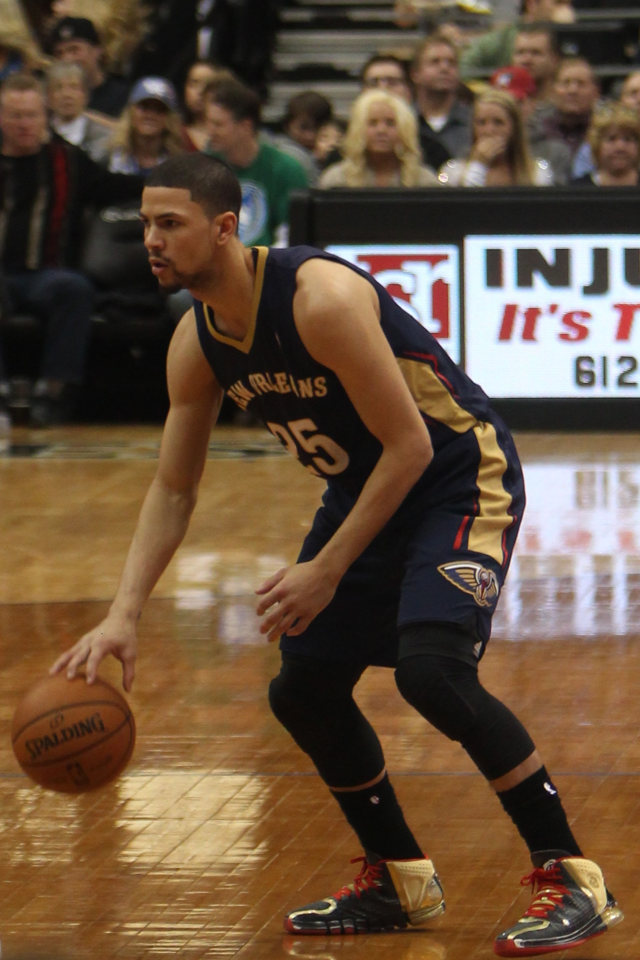 Austin Rivers at the Target Center